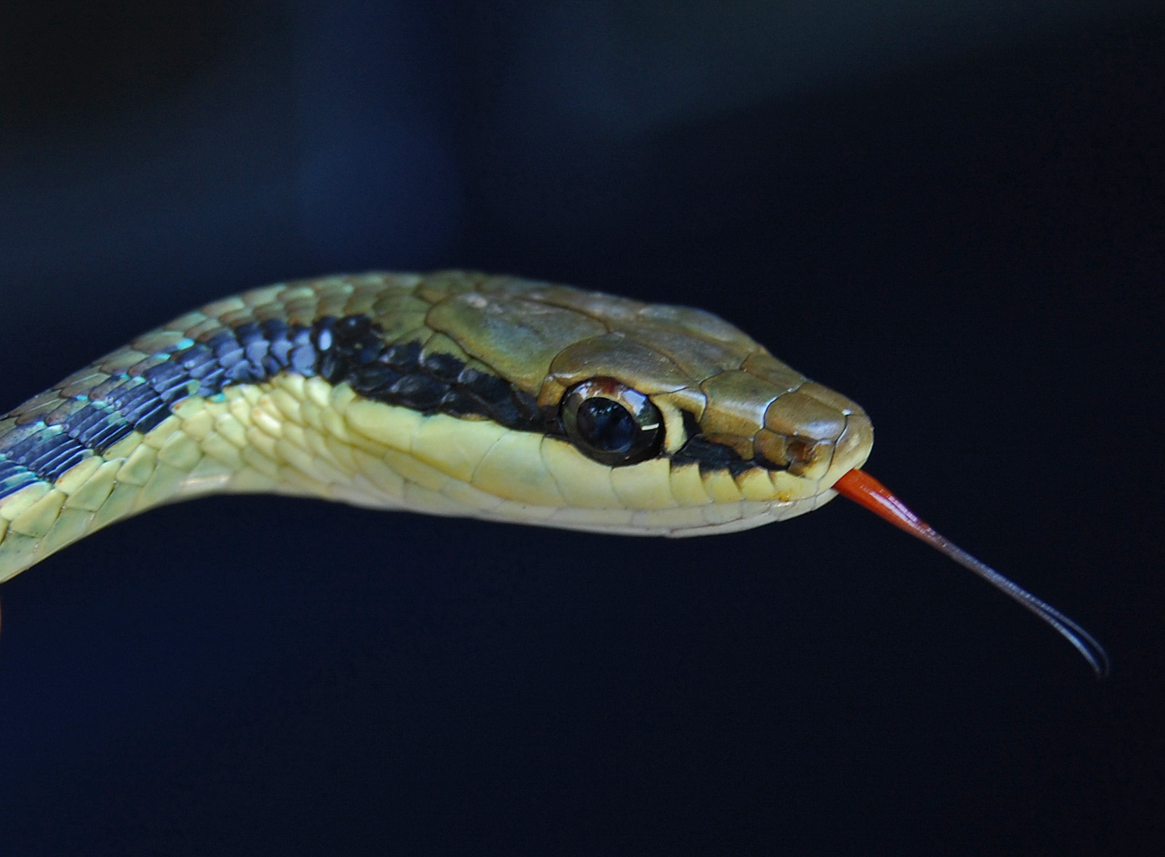 Dendrelaphis pictus, from Bogor, West Java, Indonesia